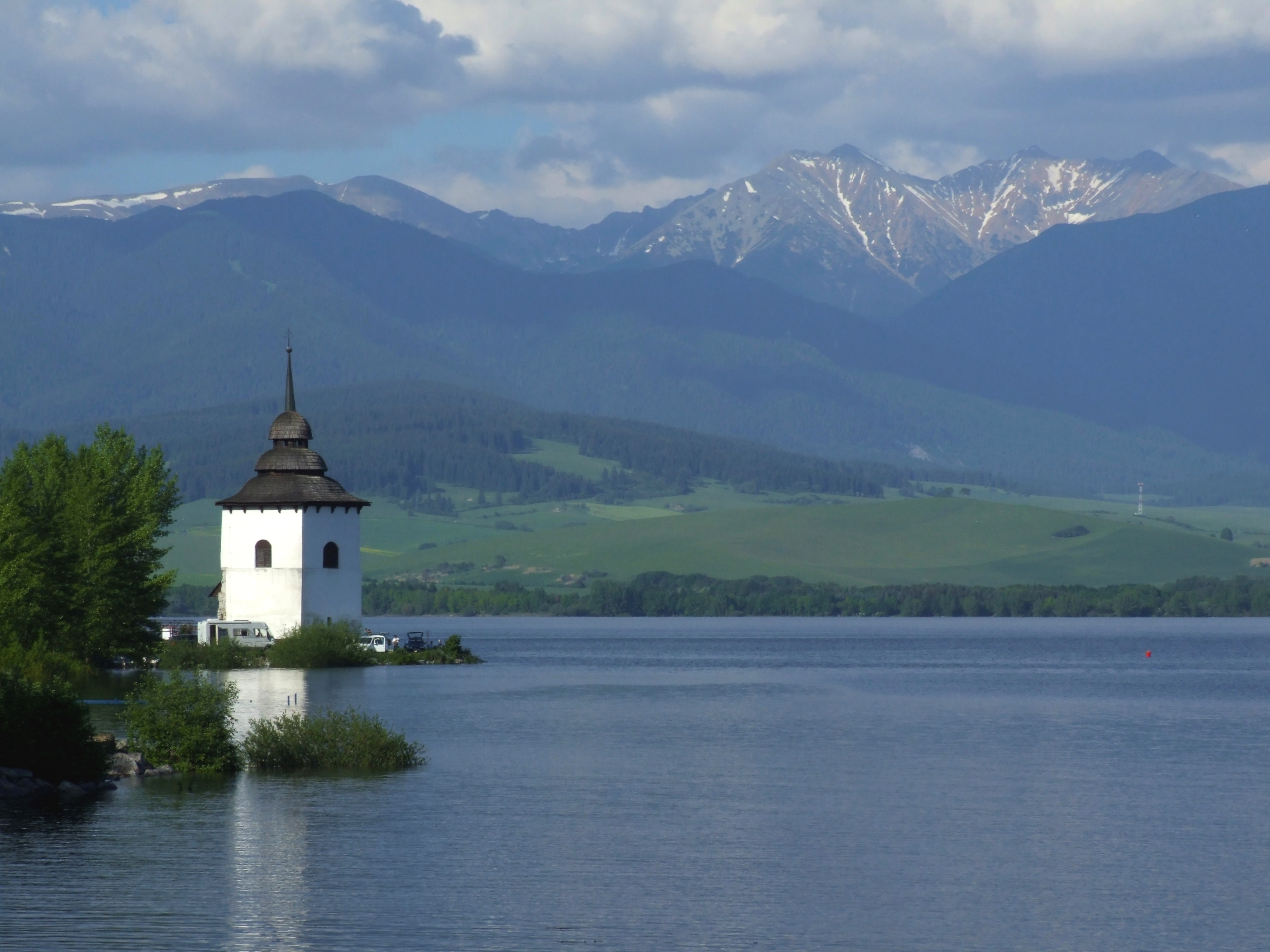 Liptovská Mara - church tower and water reservoir